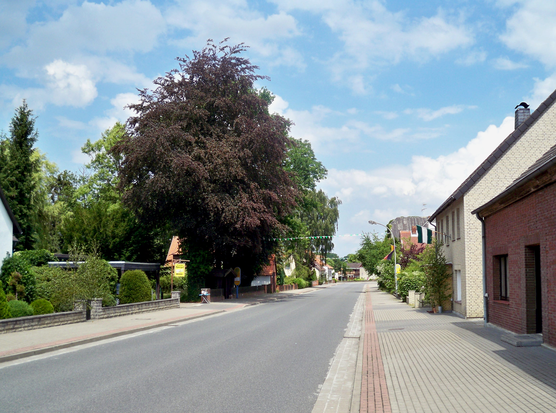 Ahnebeck, Lower Saxony, Street View